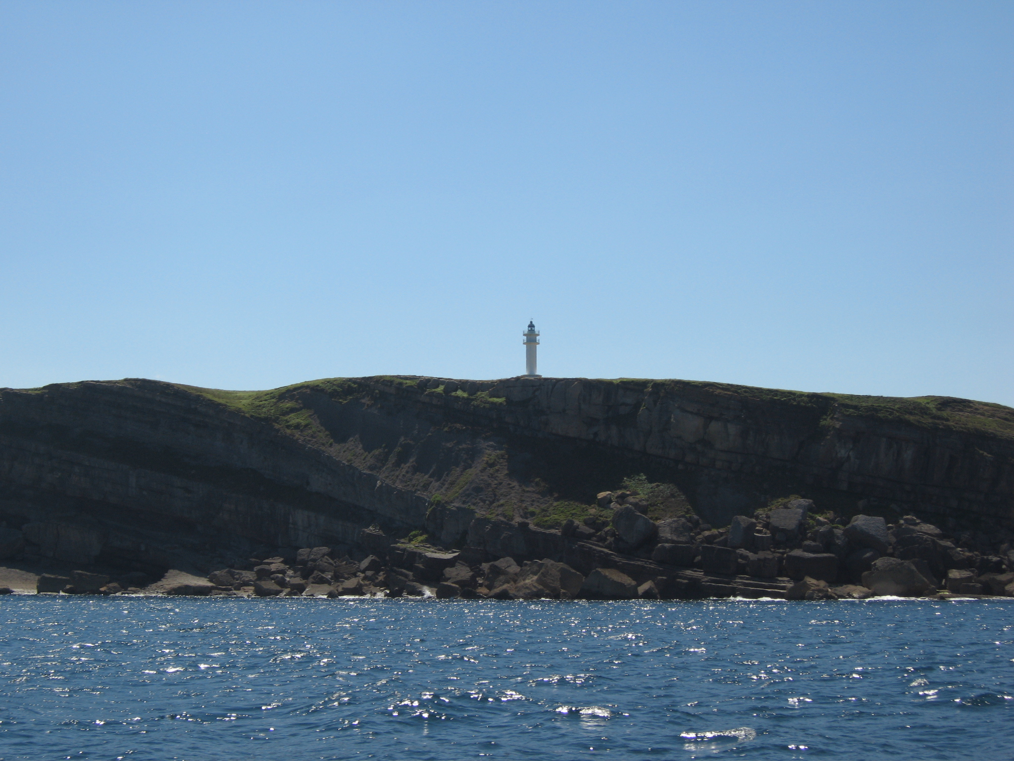 Cabo de Ajo Lighthouse